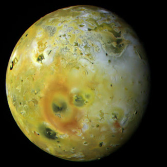 Color image from the Galileo spacecraft taken on July 2, 1999. This image shows Pele, a small lava lake that has produced a large, red ring that reaches as far as 600 km from the central vent. This image has a resolution of 11.8 km/pixel. Image credit: NASA/JPL/NOAO/Jason Perry